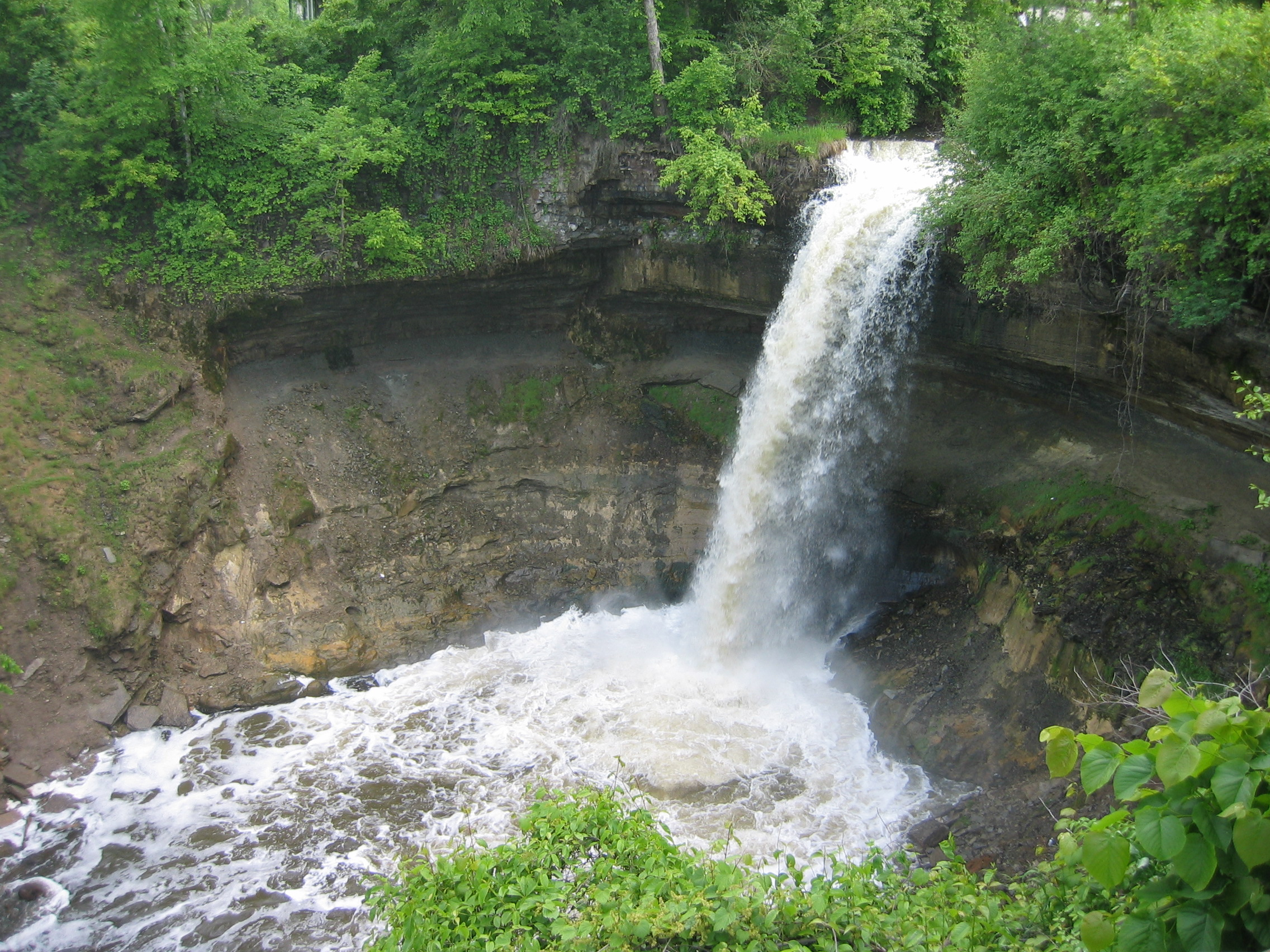 Minnehaha Falls, Minneapolis MN